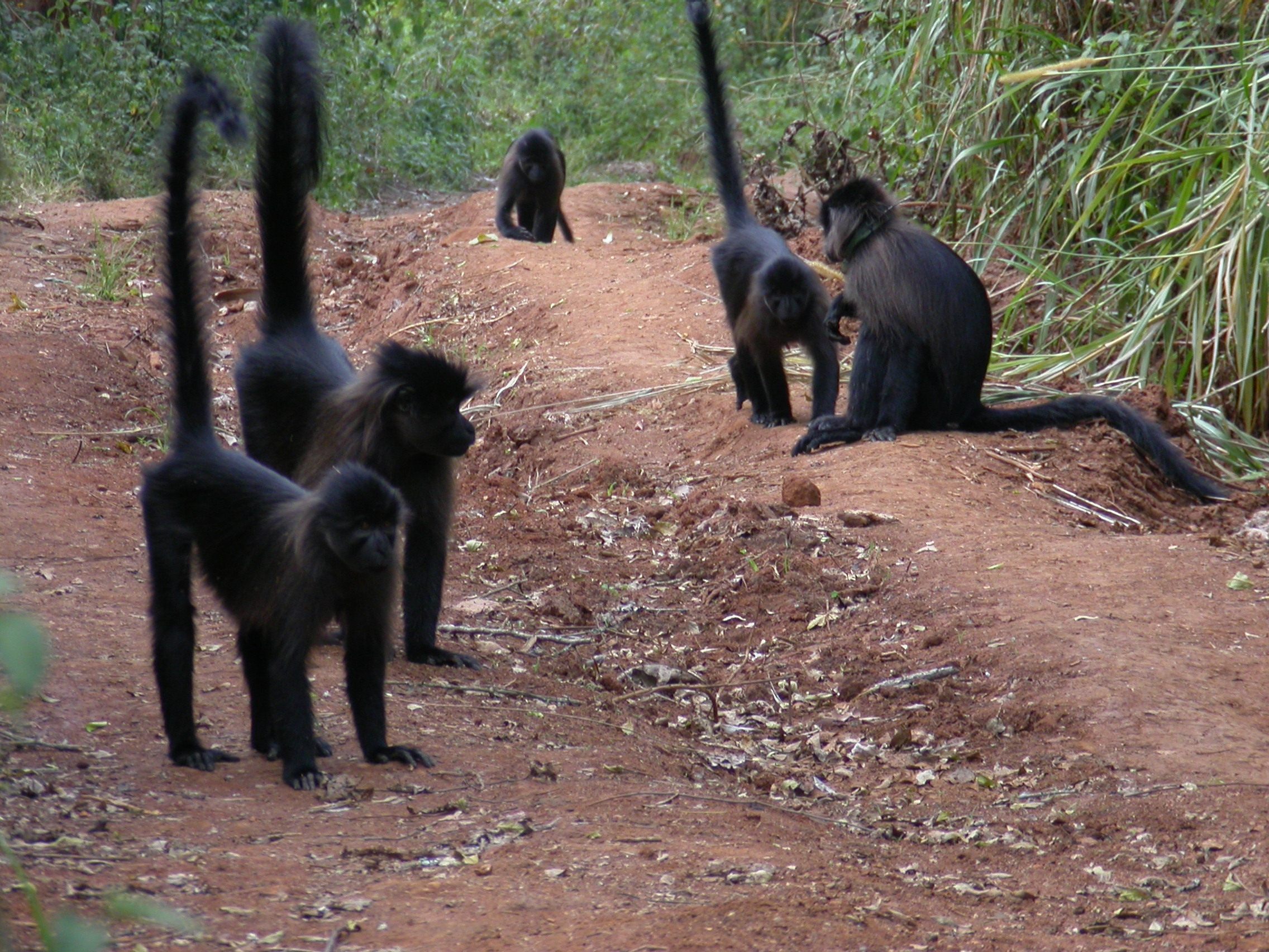 Grey-cheeked Mangabey troop crossing road in Kibale National Park. Photo by Duncan Wright